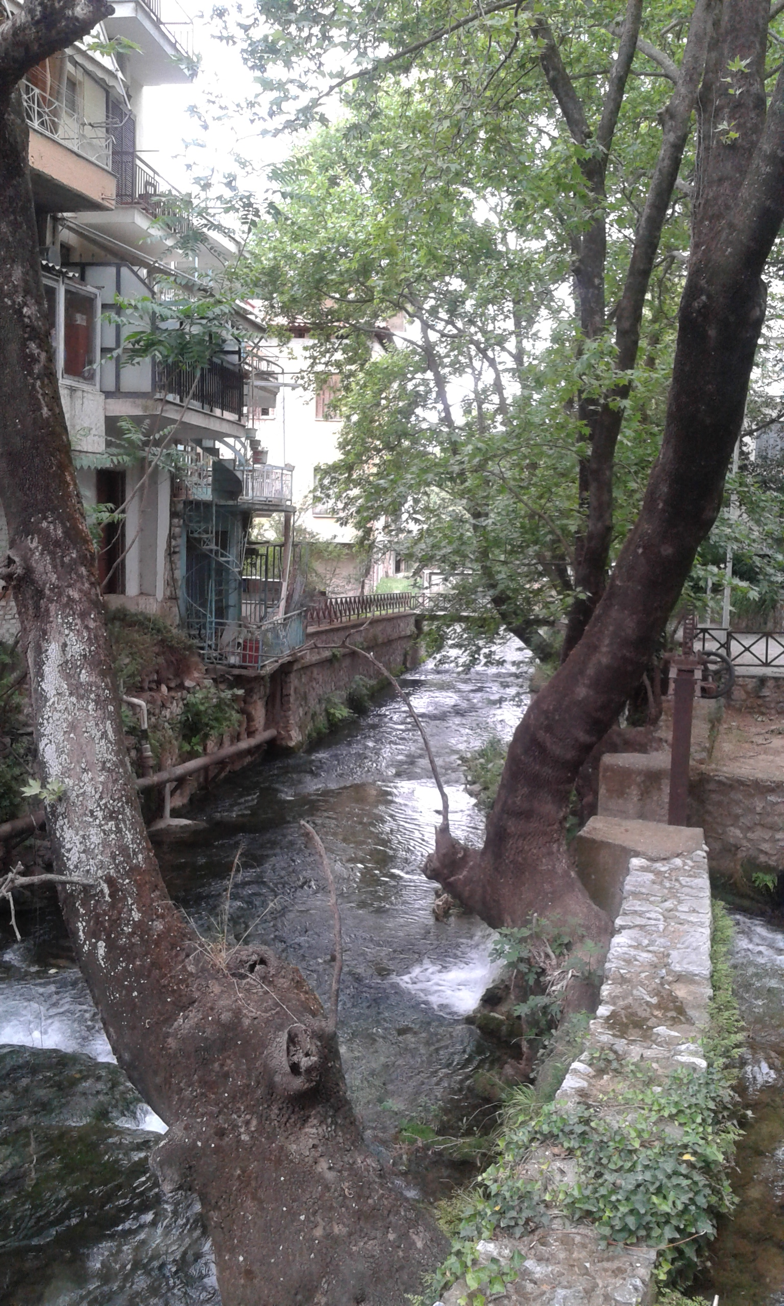 The river passing through Livadeia